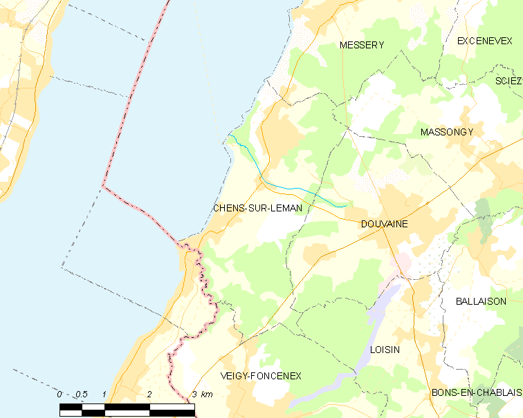 Map of French municipality Chens-sur-Léman